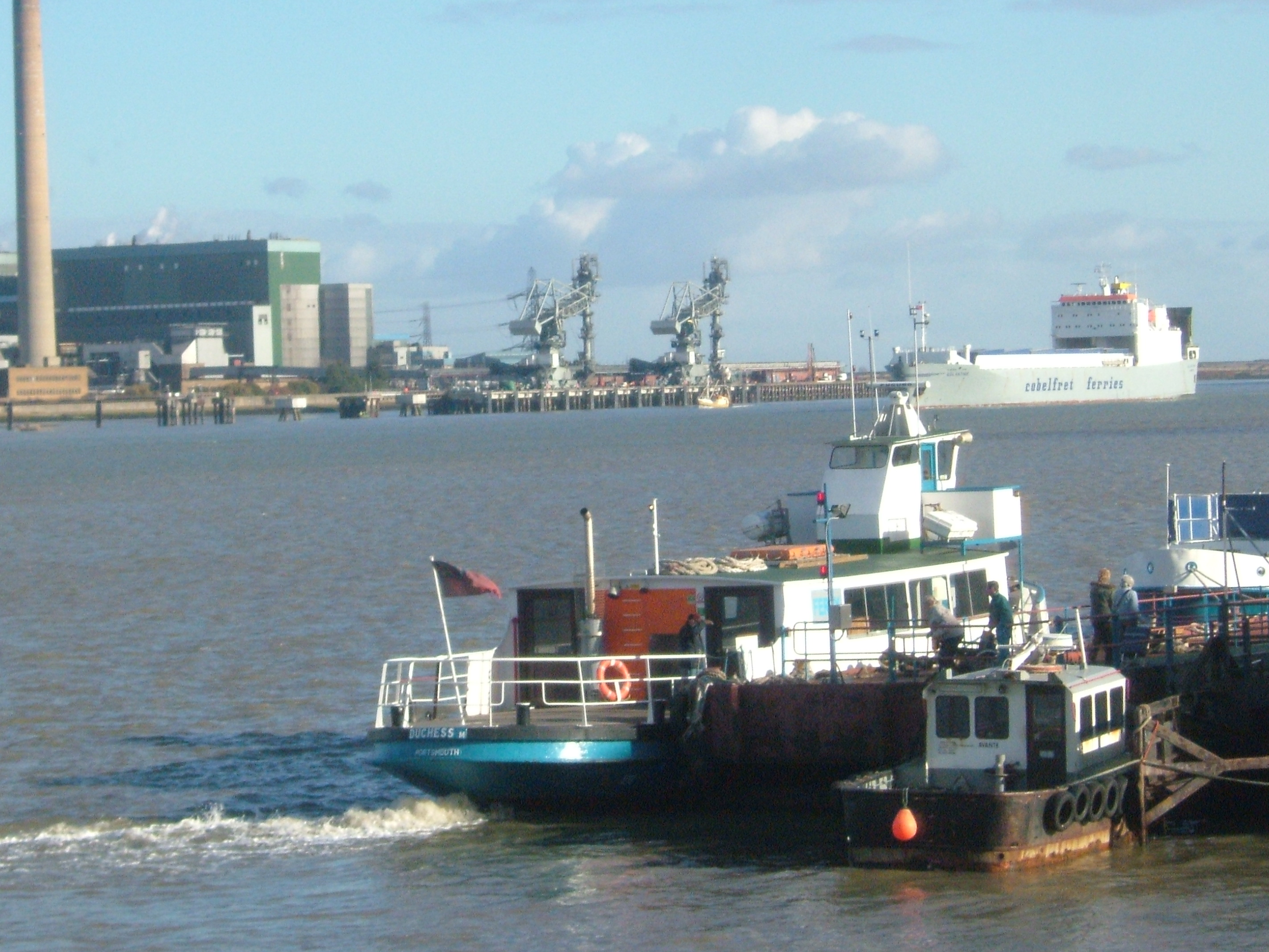 Gravesend is in North Kent, England on the River Thames. Passenger embarking/disembarking the MV Duchess, the Tilbury Gravesend ferry, at Gravesend Pier. Mid river the Cobetfret containership Eglantine (1990 Chinese built roro,147.7 metres long, 10035 gross tons, IMO number: 8302806), coming upstream on a rising tide to Ford's Wharf, Dagenham. In the distance the Tlbury Power Station with its coal wharf and two machines that unload coal from the hold , onto a conveyor belt system. Duchess M was built in 1956 as Vesta. Diesel-powered. Their lives on the Portsmouth-Gosport ferry were fairly short, being replaced by the Gosport Queen and Portsmouth Queen in 1966. The vessel is retained until the mid-1970s as reserve vessel and for use on seasonal harbour tours. Sold to Thames Pleasure Craft in 1974, but was running for Thames Launches by 1977. She passed to Arthur Green as the Duchess M in 1978, and then to D.C & W.Tours in 1981. By 1983 Duchess M was under under the Capital Cruises banner. In 1991 she was on the River Tyne running charter cruises for Rolls Royce Limousine Hire, passing to River Tyne Cruises by 1995, when her fleet mates were the Catherine (ex-Tilbury-Gravesend) and Island Scene (ex-Blue Funnel). In 1997 Duchess M was back on the Thames at Southend, running services to Queenborough and Strood, plus local sea cruises. By 1999, Duchess M was the sole fleet member, and she was sold in 2002 to the Lower Thames & Medway Passenger Boat Co for use on the Tilbury-Gravesend ferry.